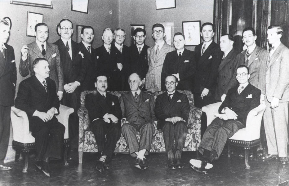 Júlio de Mesquita Filho and professors of the newly created University of São Paulo (USP), in 1930s.